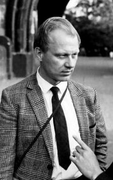 Mathematician Jürgen Moser in Tokyo, 1969.